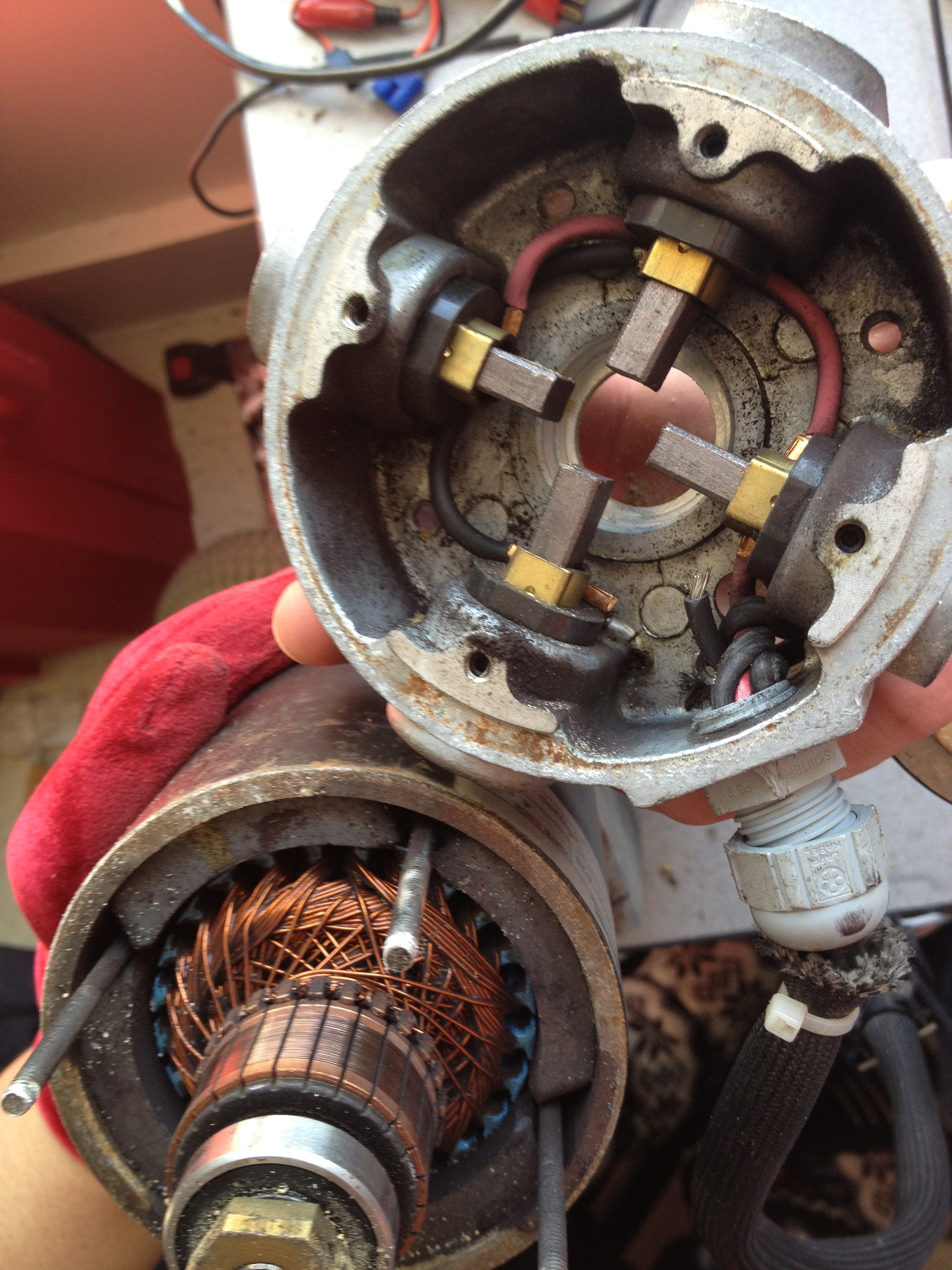 Disassembled 4 pole universal electric motor, showing commutator on rotor (segmented cylinder, bottom) and 4 graphite brushes (top) that make contact with it to provide power for rotor winding.